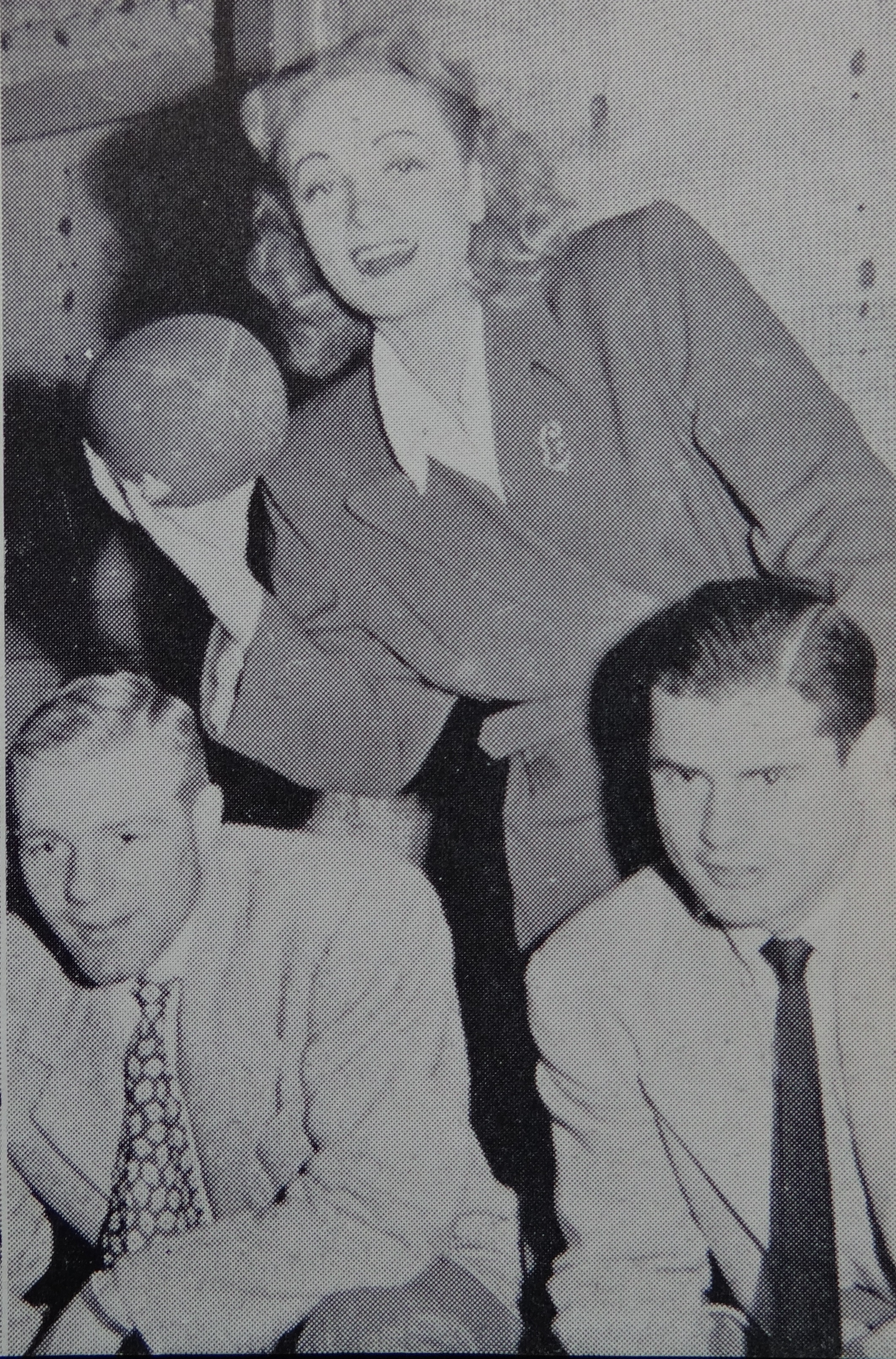 University of Michigan football players Bump Elliott and Bob Chappuis pose with Marlene Dietrich Photograph of University of Michigan football players Bump Elliott and Bob Chappuis pose with Marlene Dietrich